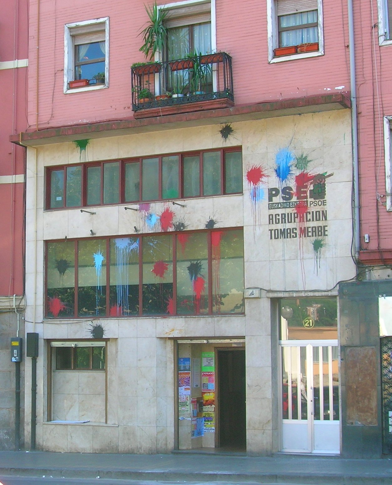 Casa del pueblo (literally People's house, local see of Partido Socialista de Euskadi - Euskadiko Ezkerra political party) in San Francisco street of Bilbao. Got paint splashes on its façade.